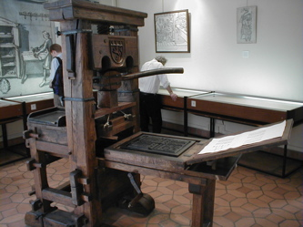 Reproduction of Gutenberg-era Press on display at Printing History Museum in Lyon, France. Photograph taken by George H. Williams in July, 2004.